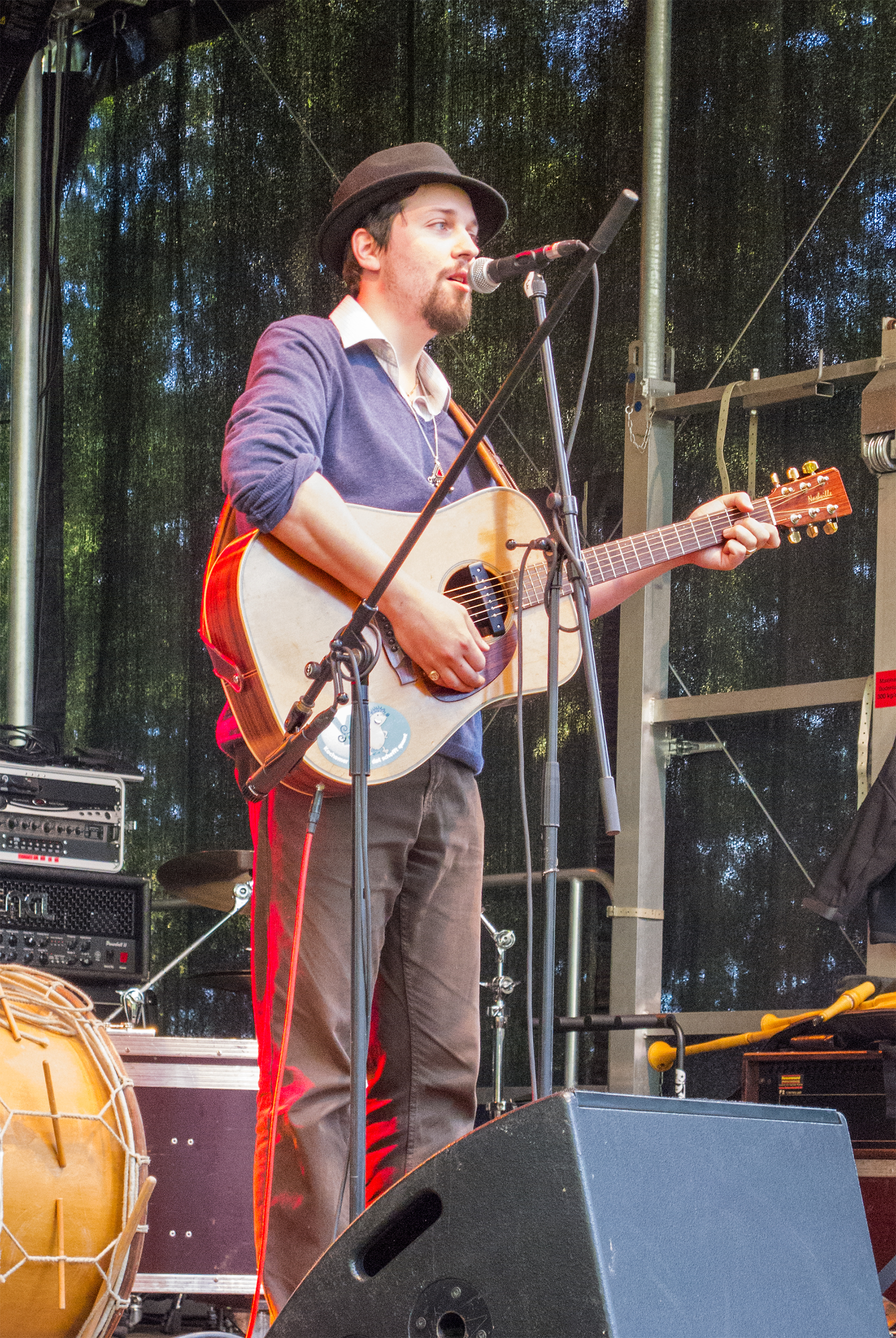 Oliver Kayser, member of the group Lompekréimer, during a gig for the Fête de la musique in Niederanven